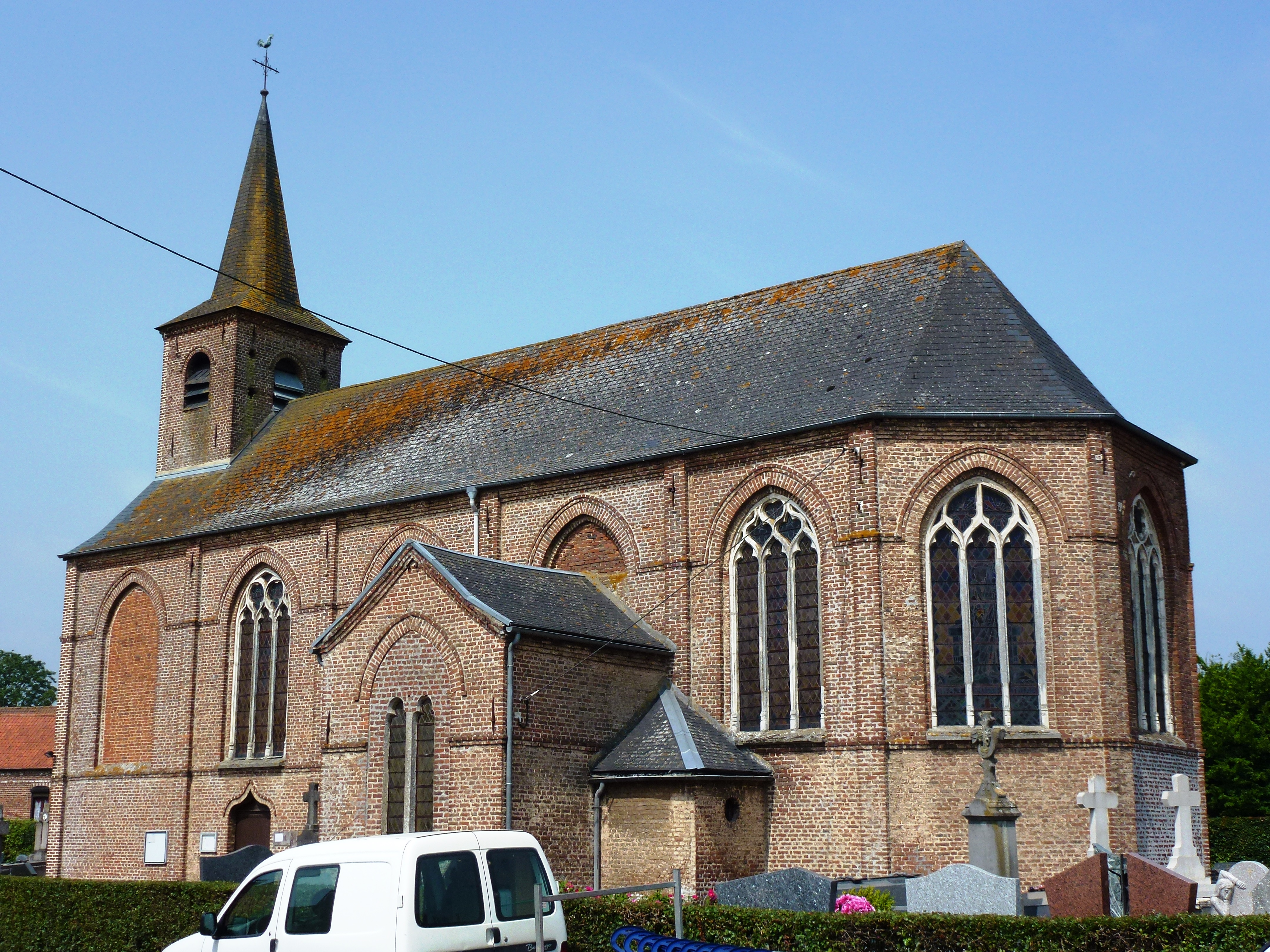 Beaumetz-lès-Aire (Pas-de-Calais, Fr) église Saint-Jean-Baptiste